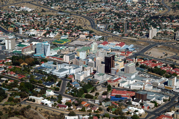 Close-up aerial photo of Central Windhoek